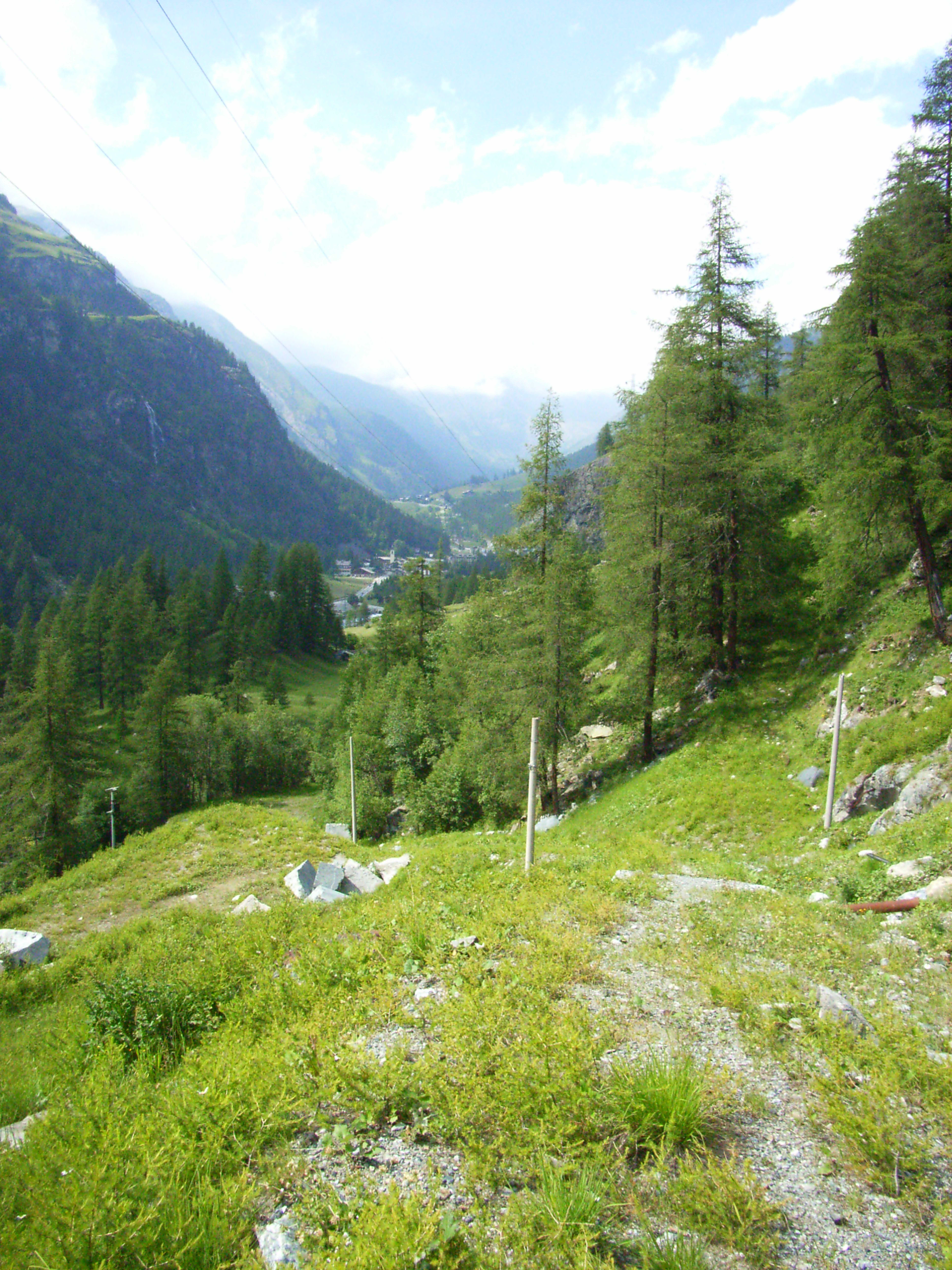 Gressoney Valley / Val di Gressoney, view to Gresonney la Trinité (Aoste Region, Italy)